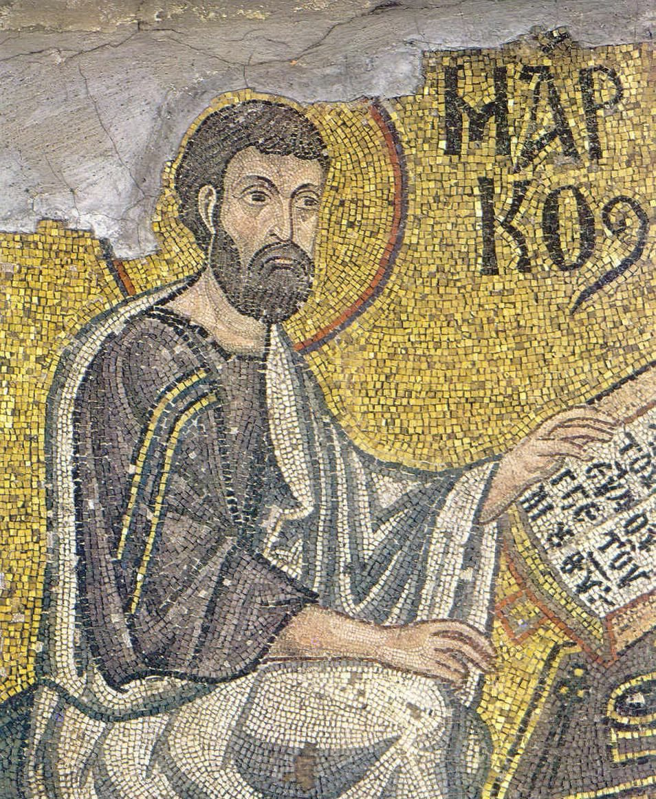 Saint Mark (mosaic in Nea Moni)